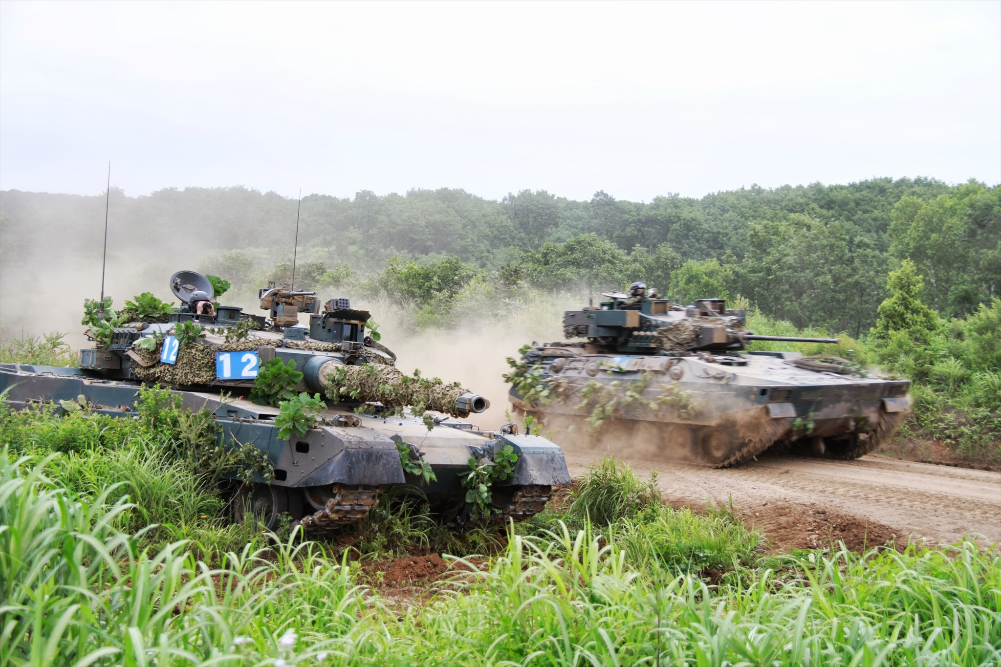 Title 敵方を警戒する第４戦車中隊９０式戦車（撮影者 不明）.JPG Album 教育訓練等 第７２戦闘団訓練検閲（第７２戦車連隊・北恵庭）